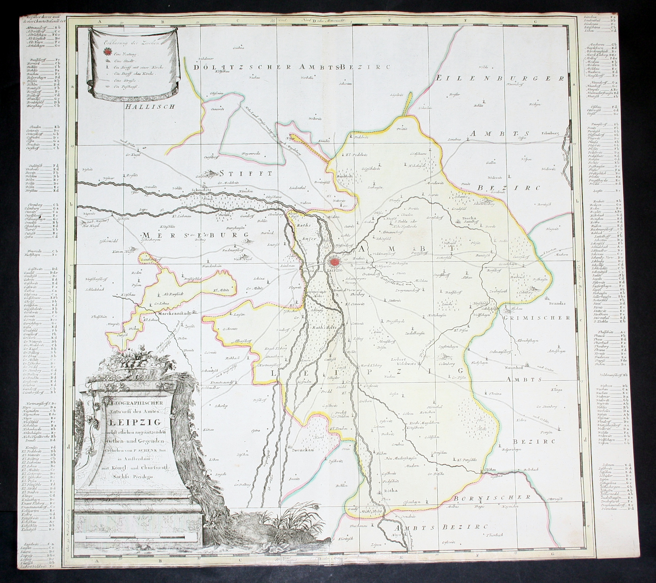 Pieter Schenk the Younger: original copper engraving from around 1740, paper app. 58x50cm, titled: "Geografischer Entwurff des Amtes Leipzig" (geografical design of the Saxonian department Leipzig)